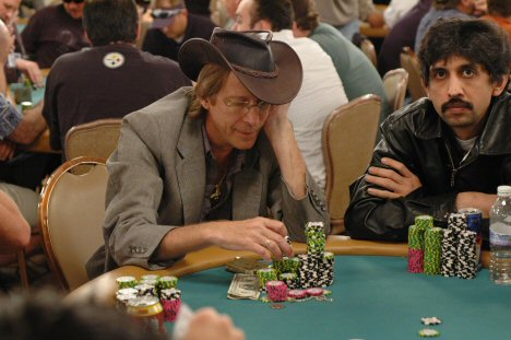 Jim Meehan playing in the 2005 World Series of Poker.